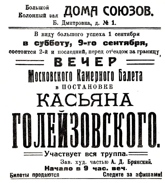 Playbill of concert of early 20th century - Kasian Goleyzovski (Касьян Голейзовский)